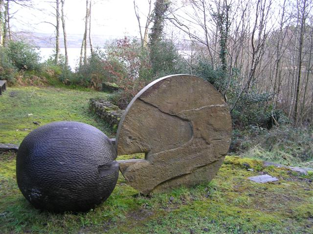 Sculpture, Glenfarne Forest It is along the shore road